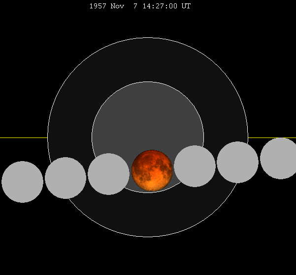 November 1957 lunar eclipse chart of moon's path through the earth's shadow. thumb